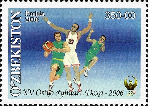 Stamps of Uzbekistan, 2006